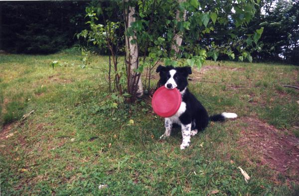 A 3 month old border collie